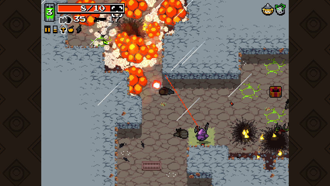 Screenshot from 2015 video game Nuclear Throne